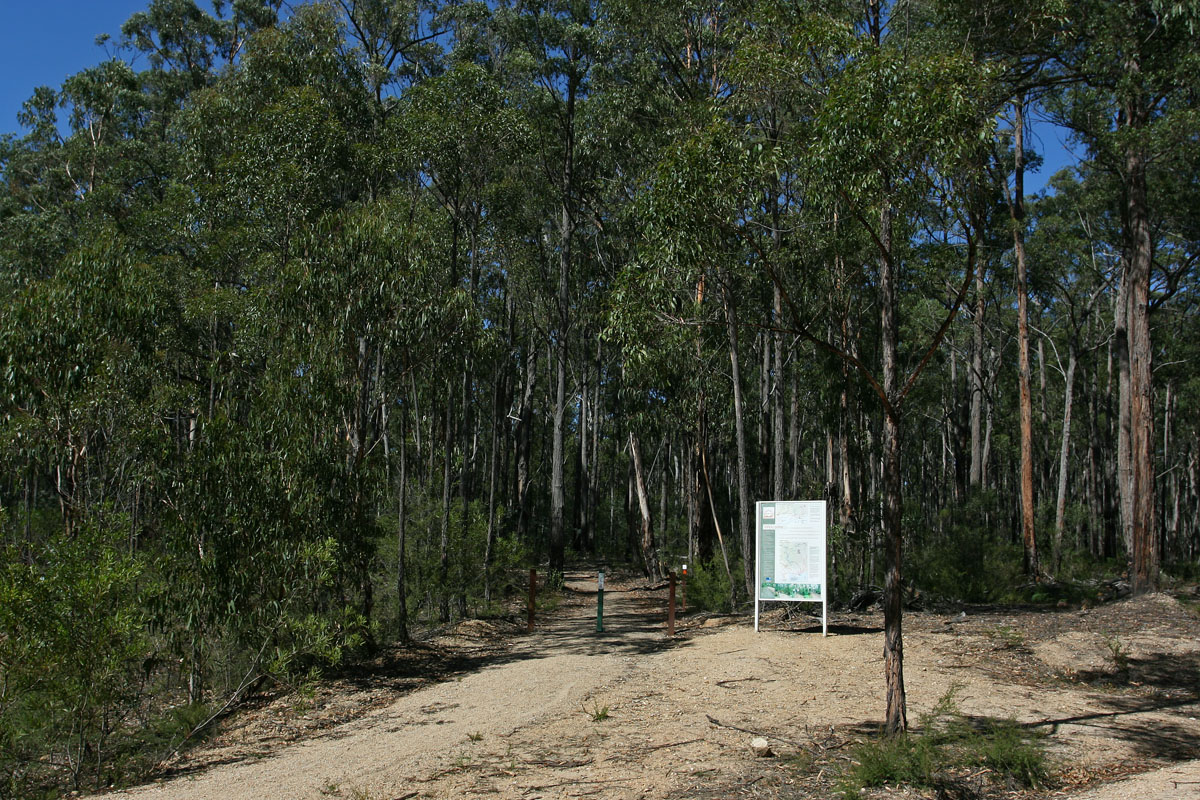 Looking south-east at the start of the Gippsland Lakes Discovery Trail at its junction with the East Gippsland Rail Trail near Seaton Track, Colquhoun State Forest, Victoria, Australia.